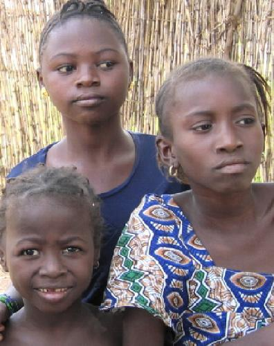 Local People